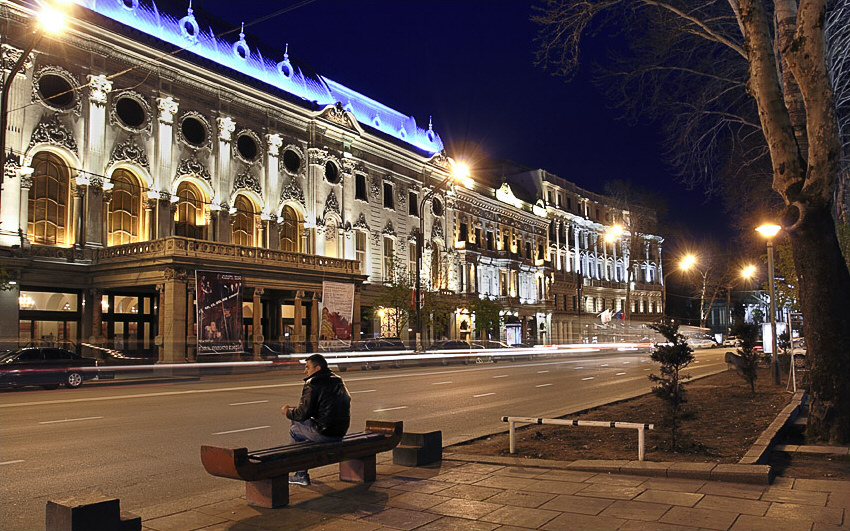 Night on Rustaveli Avenue, Tbilisi. Rustaveli Theatre and Hotel Marriott Tbilisi. The Rustaveli Theatre where Chakhava made her debut in 1941.